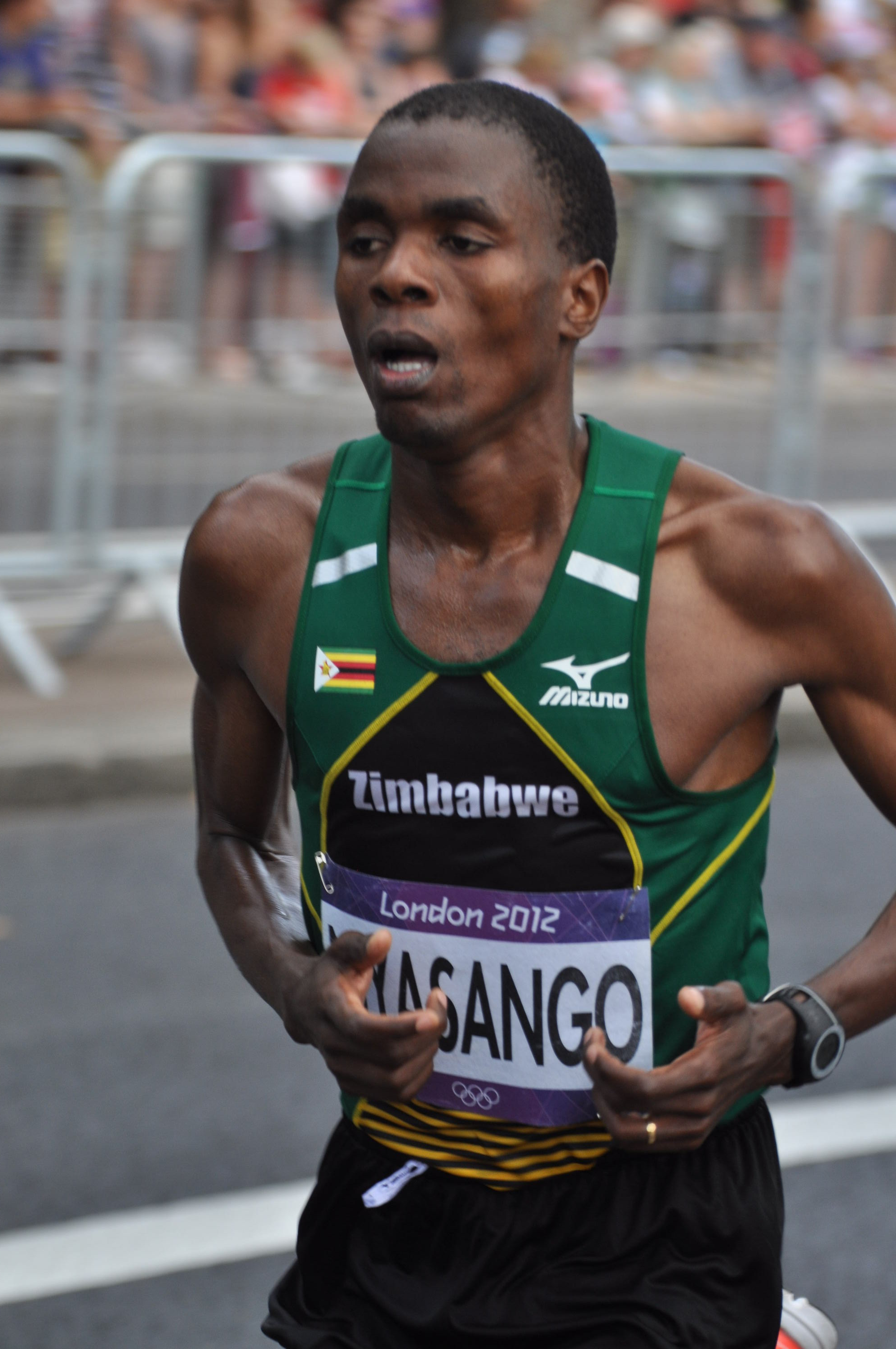 The men's marathon of the 2012 Summer Olympics in London, UK took place on an Olympic marathon street course on Sunday 12th August 2012 at 11:00. This was the final day of the 30th Olympic Games. The London 2012 marathon course is the standard Olympic distance of 26 miles 385 yards and consists of one short lap of approx 2.2 miles followed by three longer laps of 8 miles. The course began on The Mall and travelled past several of the most famous London landmarks. The start/finish line was near the Victoria Memorial. These photographs were taken at the Victoria Embankment. This featured several times on the looped course. The approximate location from the photographs is shown in the Google StreetView Link below. Stephen Kiprotich won in 2 hours, 8 minutes, 1 second as he pulled away from the Kenyan duo of Abel Kirui and Wilson Kiprotich Kipsang. These photographs are unofficial photographs. They are not endorsed by London 2012. There are not commercially available. They are available for use under a Creative Commons License. Please link back to the photograph on my Flickr account if you use the image.